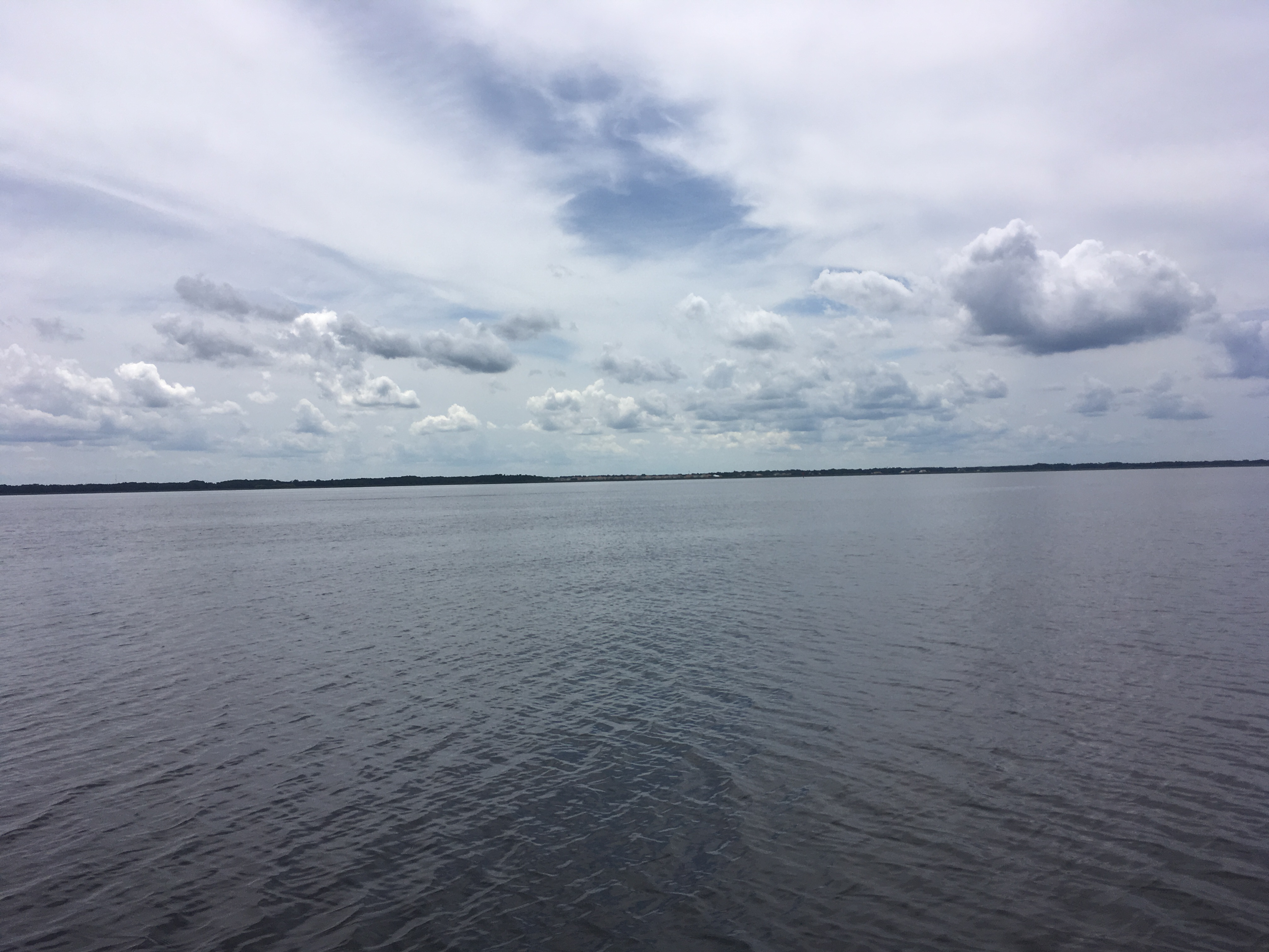 A view of Lake Tohopekaliga south of St. Cloud, Florida.